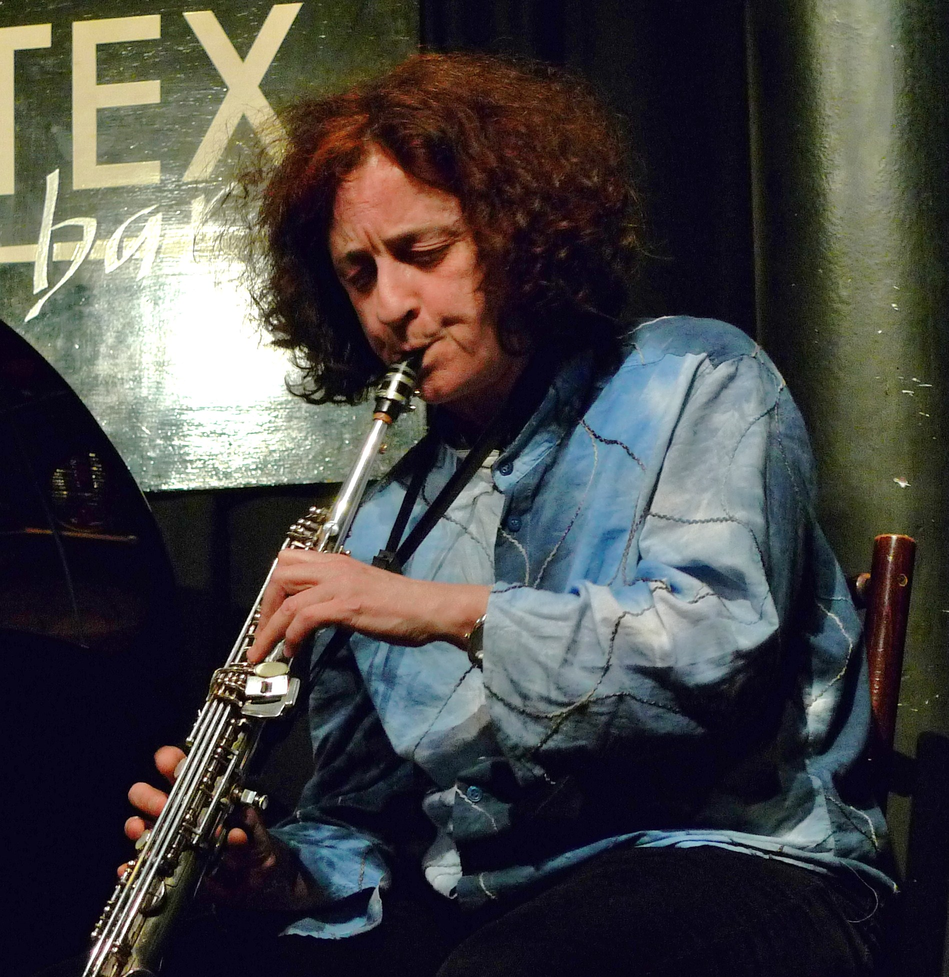 Mopomoso @ the Vortex, London. Sunday 18th April 2010